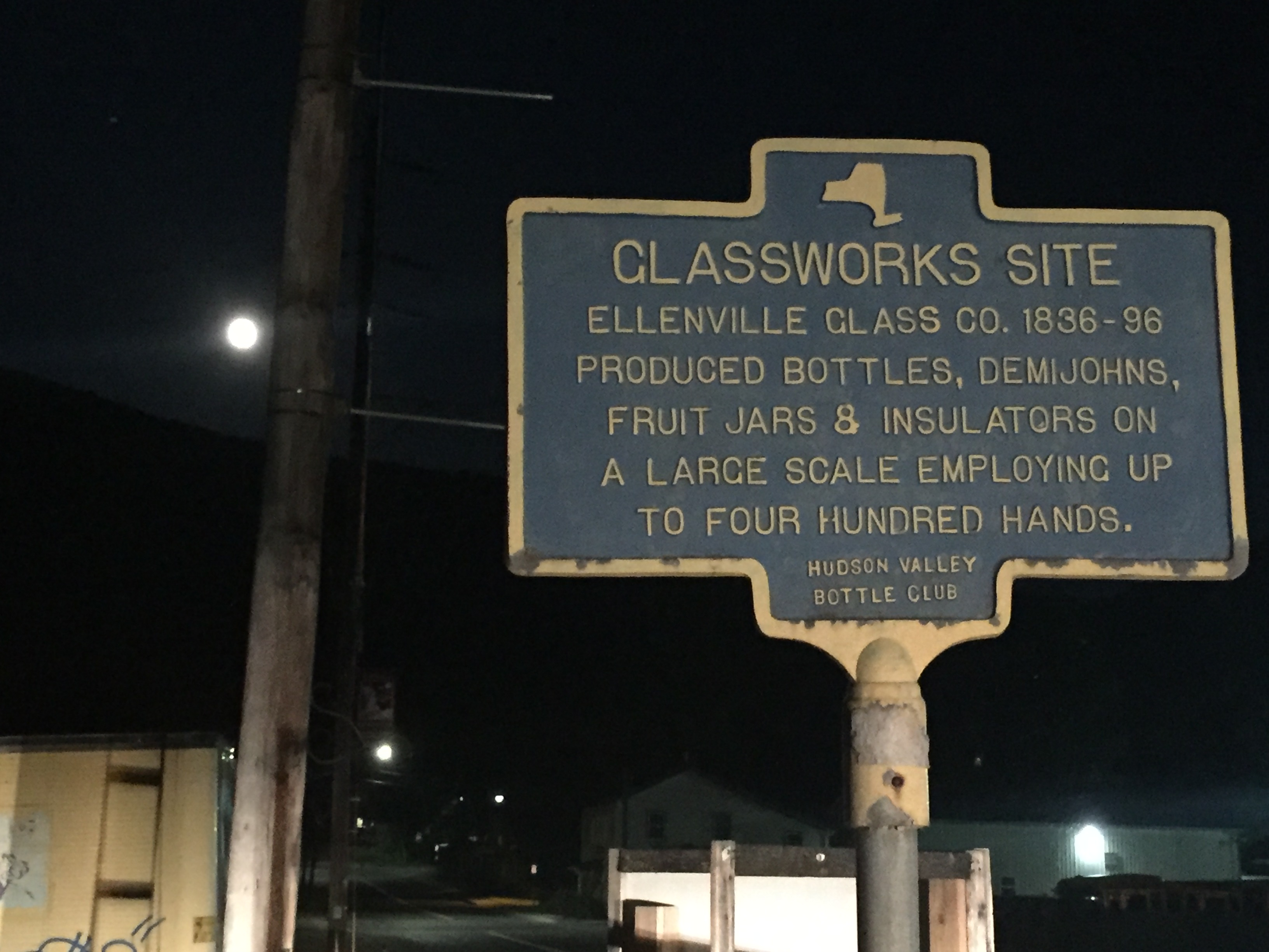 Historic marker for the Glassworks in Ellenville, NY